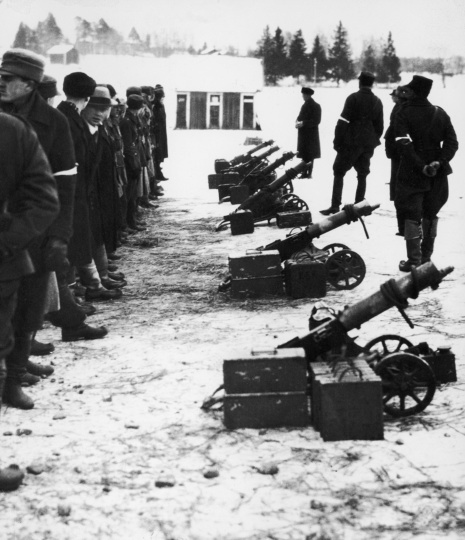 The Mäntsälä rebellion. March 7th, 1932. Six machine guns of the rebels.